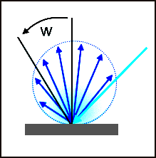 reflected light on a Lambertian surface